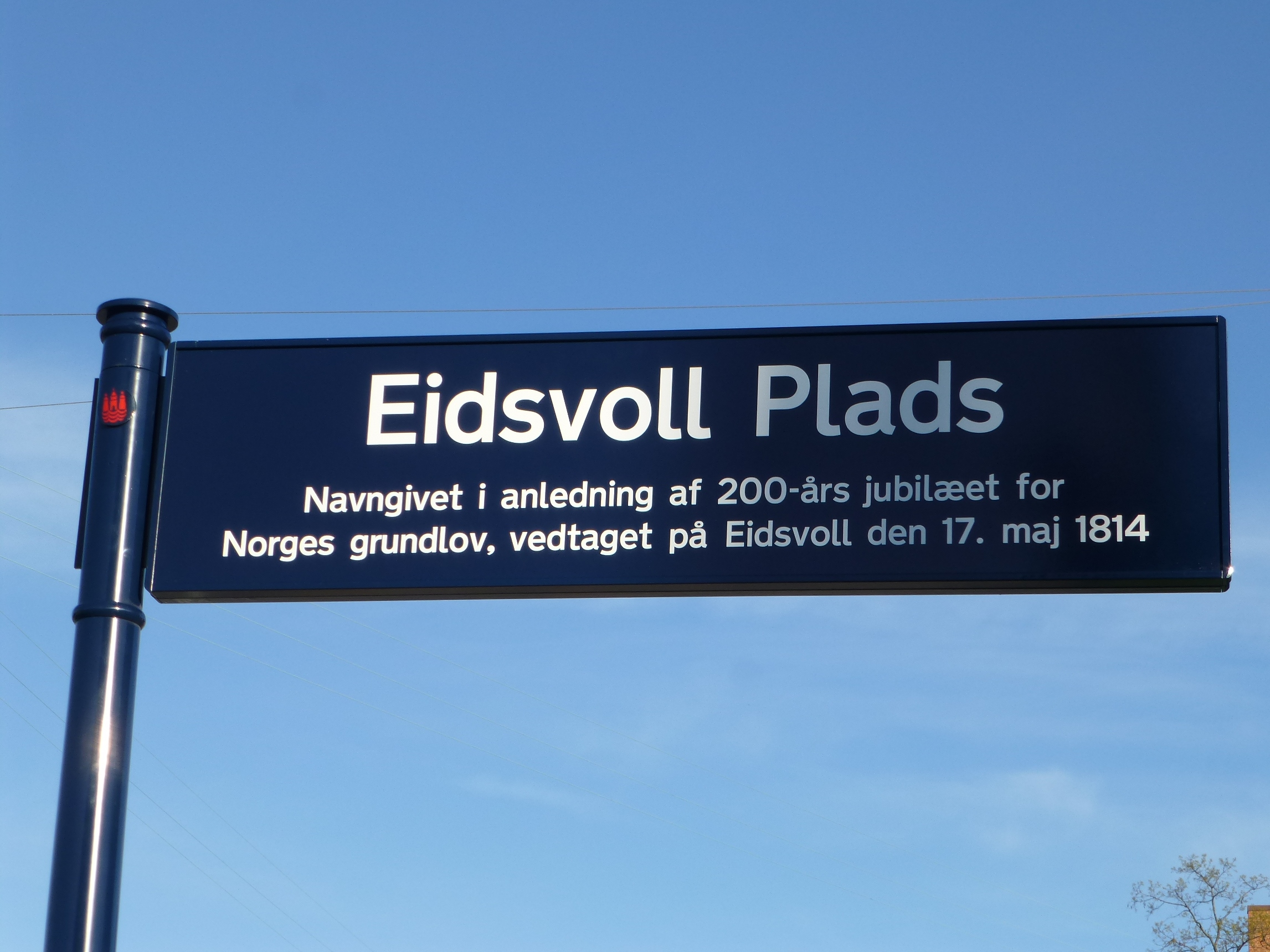 The square Eidsvoll Plads in Indre By in Copenhagen. It received it's name at 17 may 2014 to celebrate the 200 year of the Norwegian Eidsvoll Constitution.